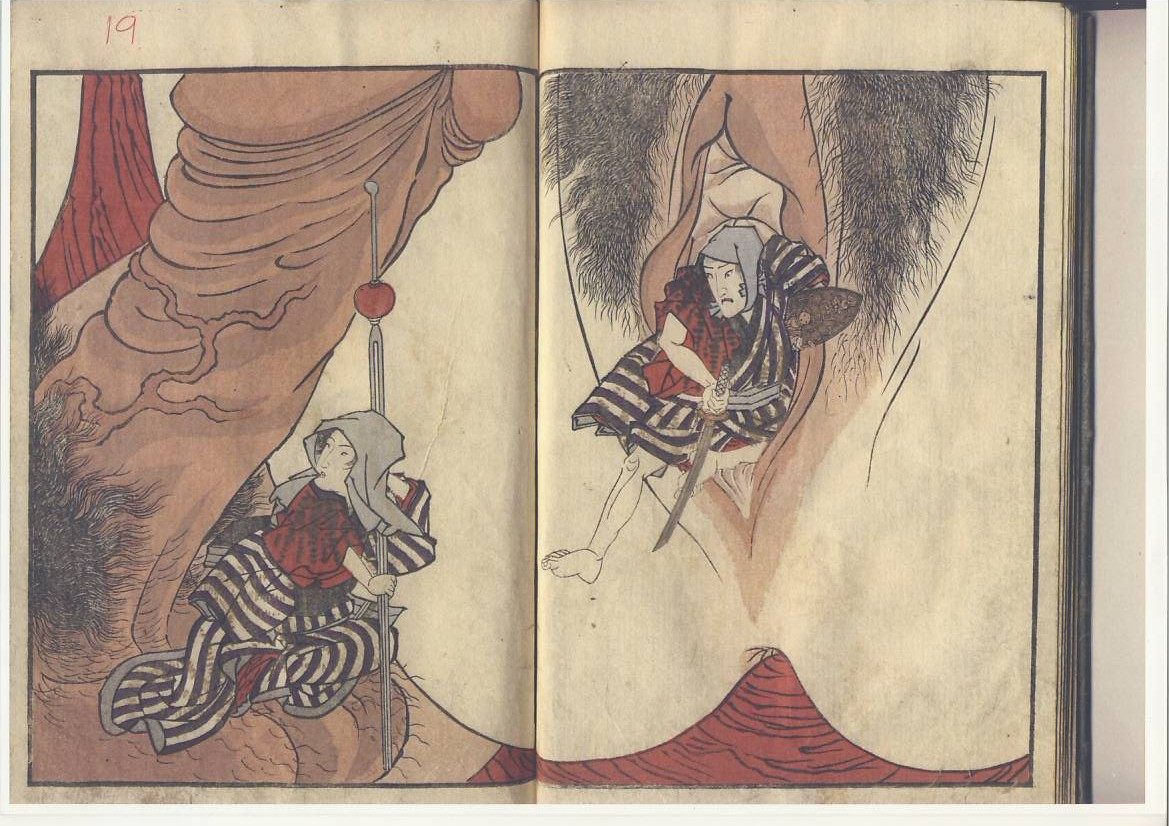 UTAGAWA KUNISADA 1827 SHAGAN COLLECTION